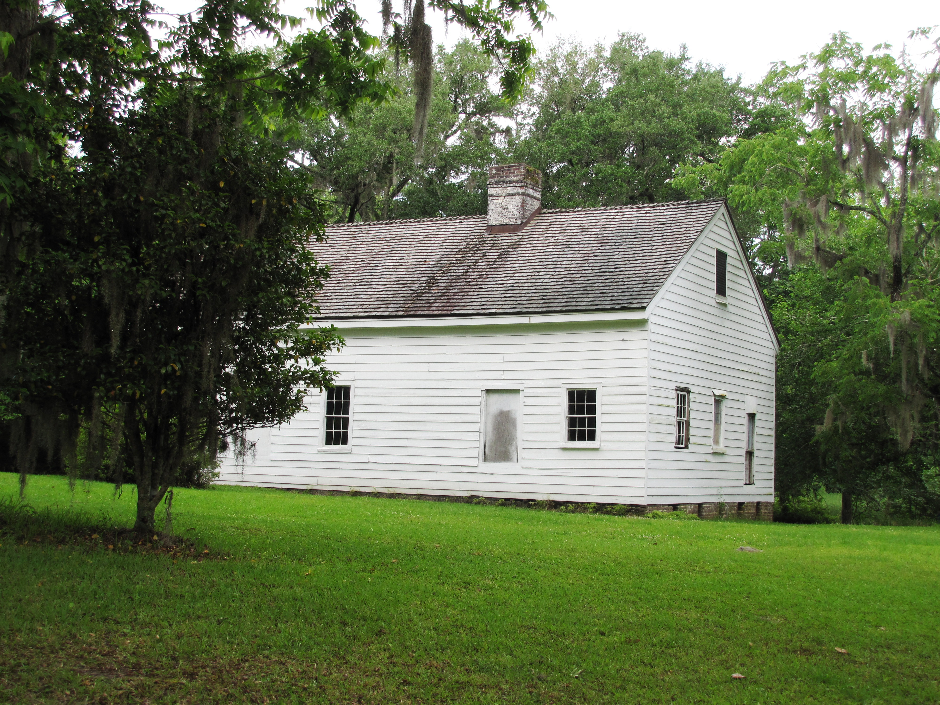 Kitchen house at the Hampton Plantation State Historic Site in Charleston County, South Carolina, USA.